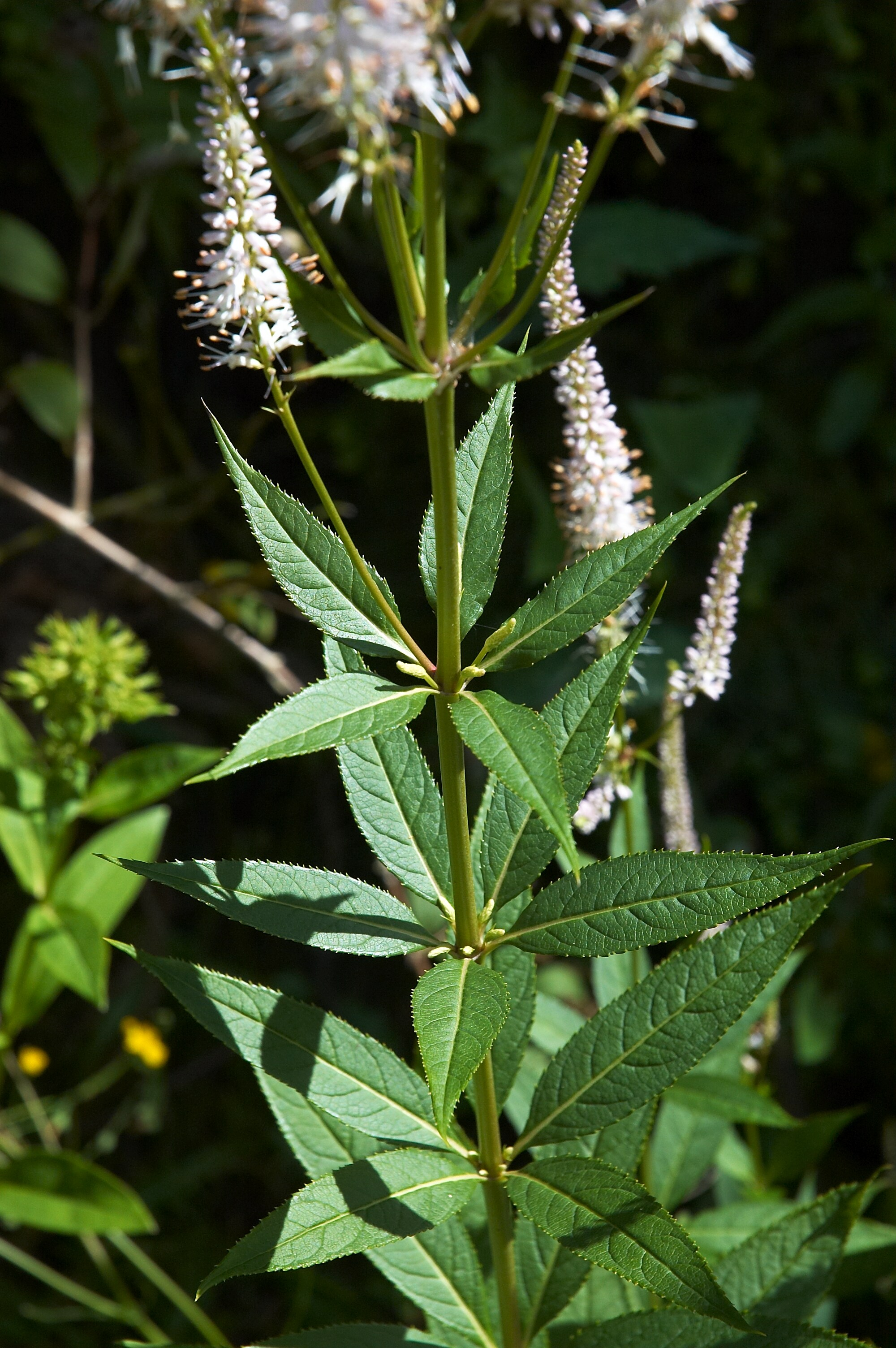 Veronicastrum virginicum 'Album'. The photo has been taken in Belgium.